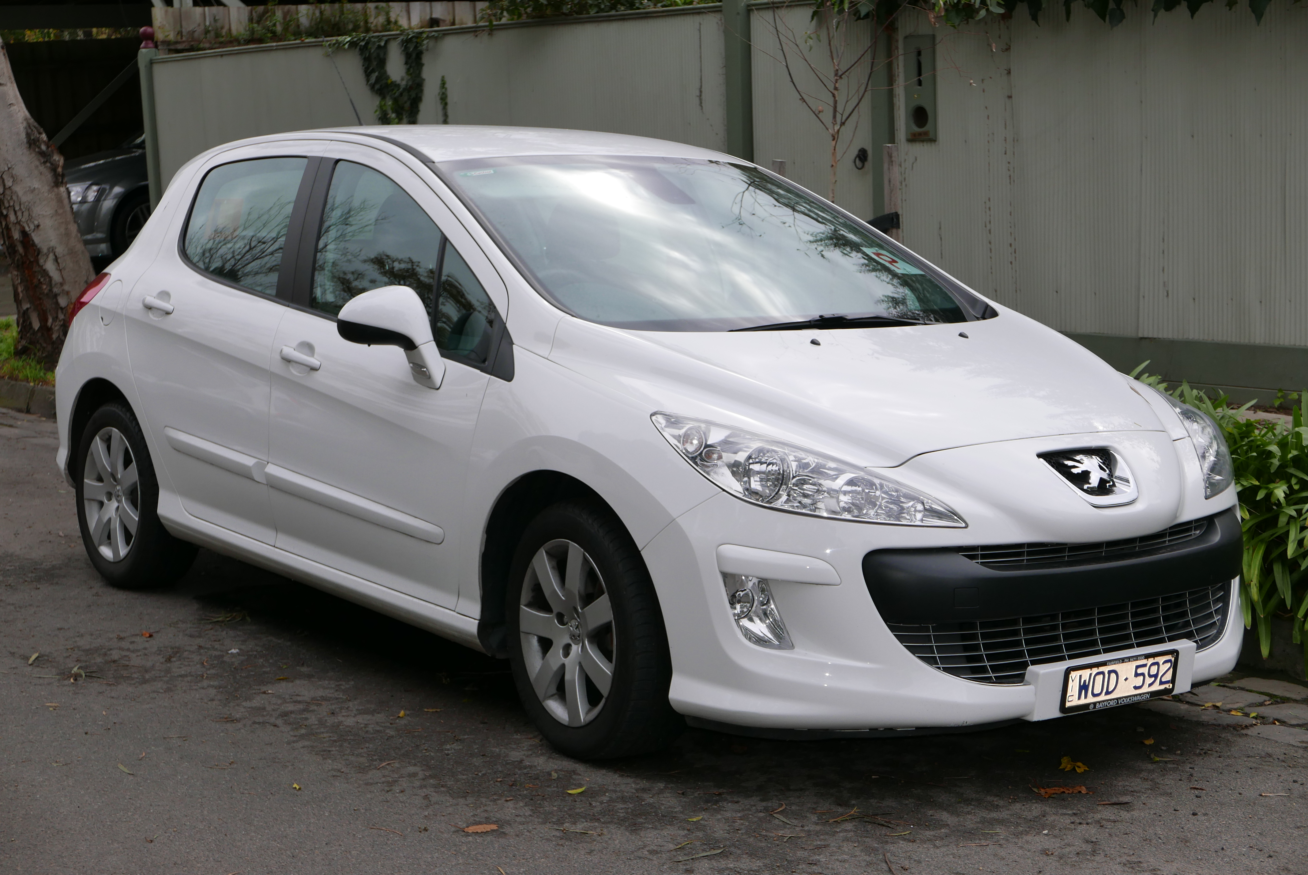 2008 Peugeot 308 (T7) XS HDi 5-door hatchback. Photographed in Alphington, Victoria, Australia. Vehicle registration enquiry results Jurisdiction Victoria Registration WOD592 Chassis code VF34C9HZH55181809 Engine code JBAJ3097859 Compliance date 2008-07 Year of manufacture 2008